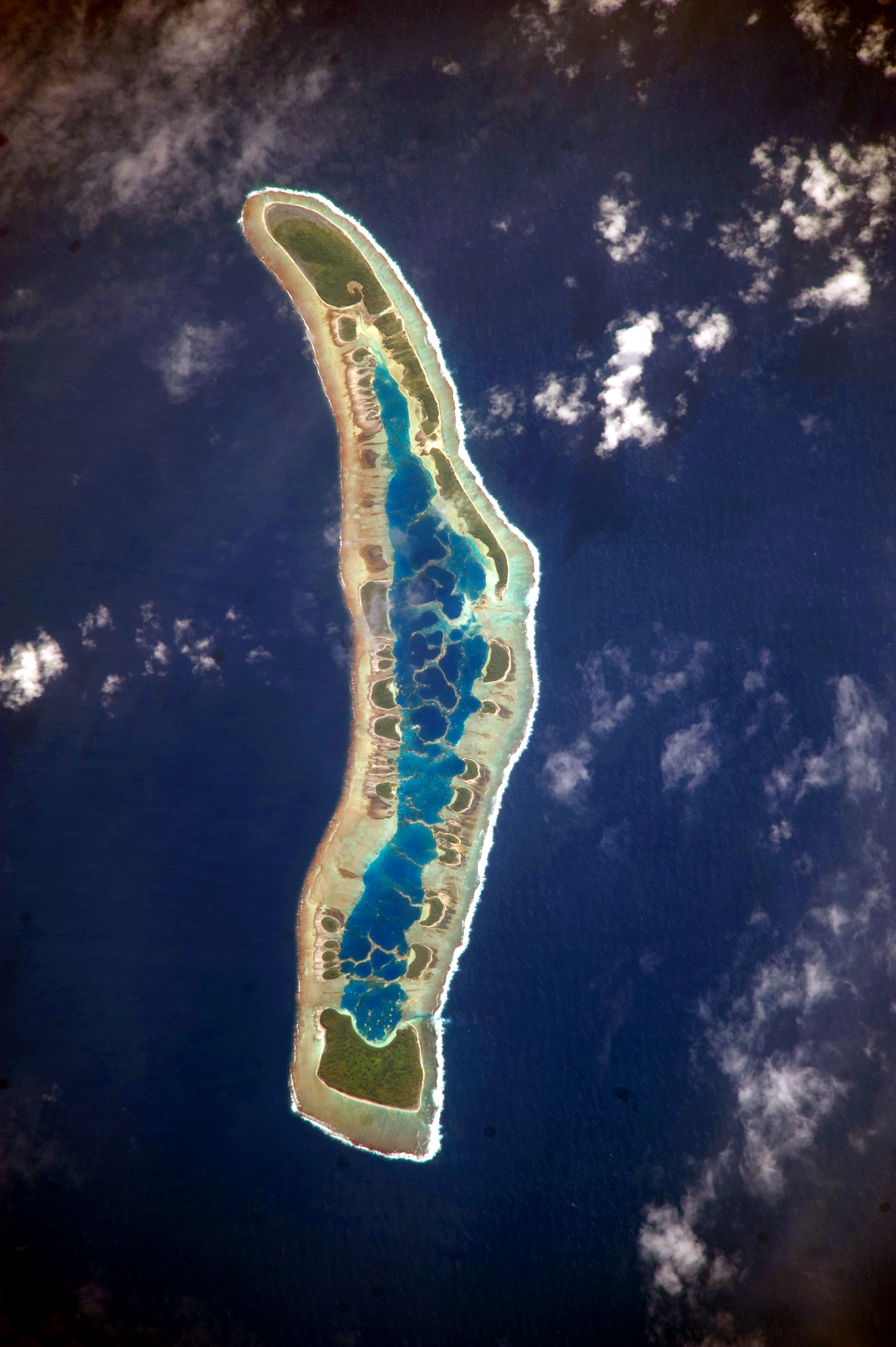 The islets of Millennium Island are readily visible in this astronaut photograph as irregular green vegetated areas surrounding the inner lagoon. The shallow lagoon waters are a lighter blue than the deeper surrounding ocean water; tan linear “fingers” within the lagoon are the tops of corals. The two largest islets are Nake Islet and South Islet, located at the north and south ends of Millennium Island respectively.